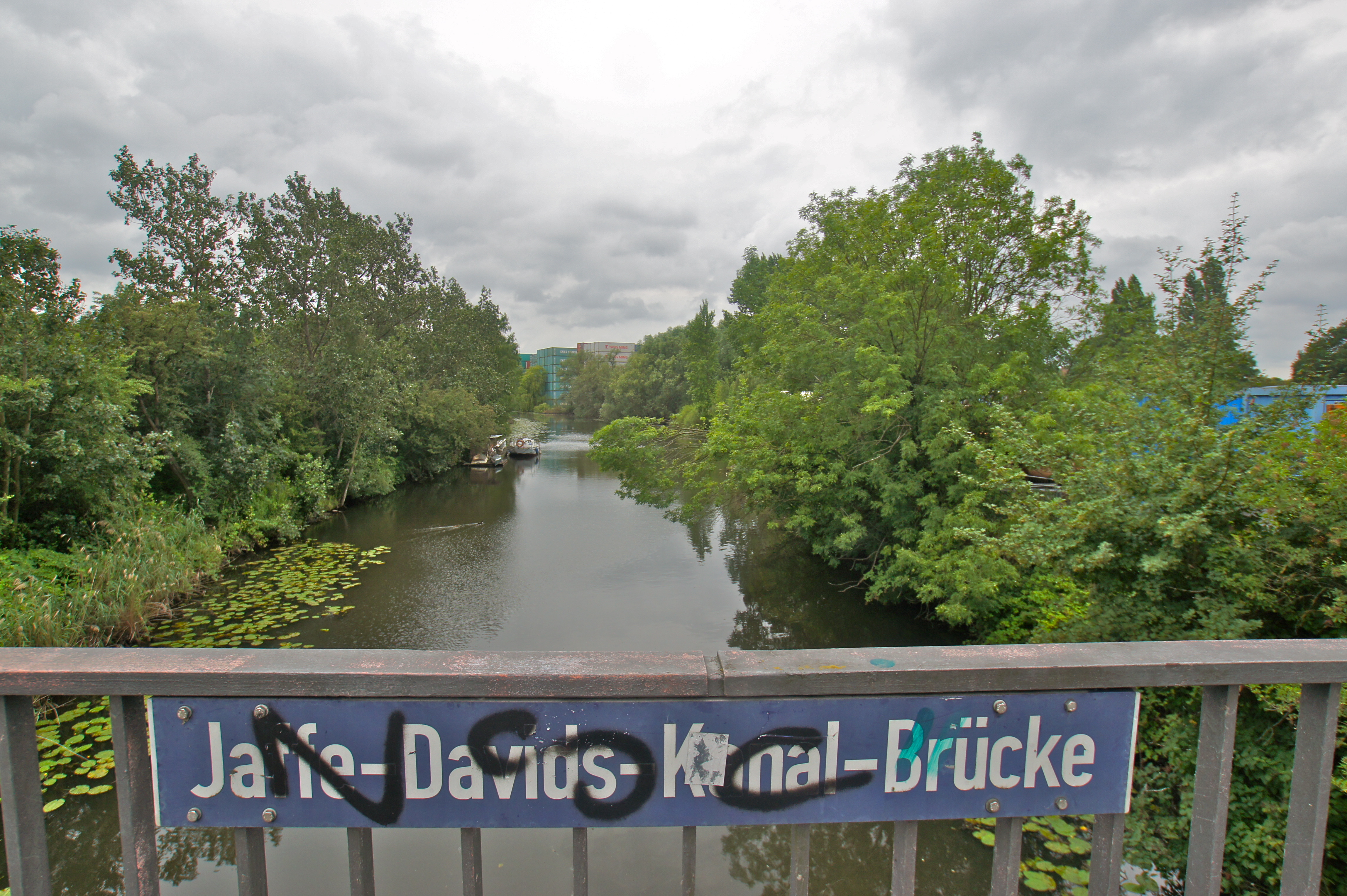 Hamburg (Wilhelmsburg), Germany: The Jaffe-Davids-Kanal from the Vogelhüttendeich